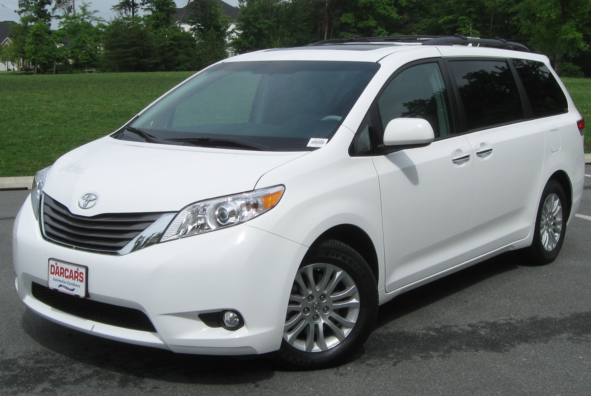 2011 Toyota Sienna photographed in Silver Spring, Maryland, USA.